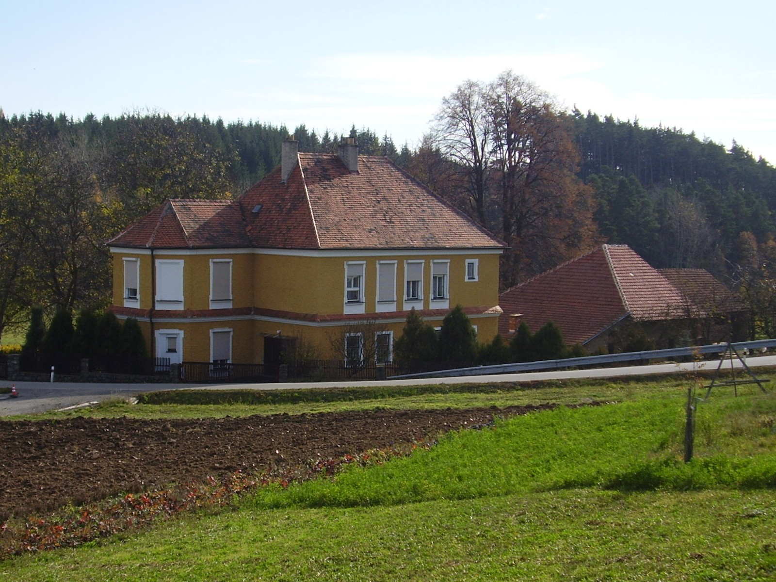 Family House from abandoned brickkiln Tardy-Řezáč (1912-1935) near village Pánov (Velká Bíteš, Czech Republic) ref. From 1935 during World War II to 1980th was owner of family dr. Bohuslav Indra. Part times in years 1942-1945 live here illegal life Vojtěch Luža and Radomír Luža, from Czech anti-Nazism revolt group Rada tří.